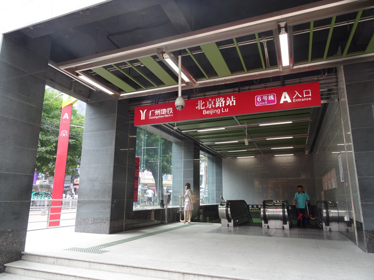 北京路站嘅A出入口